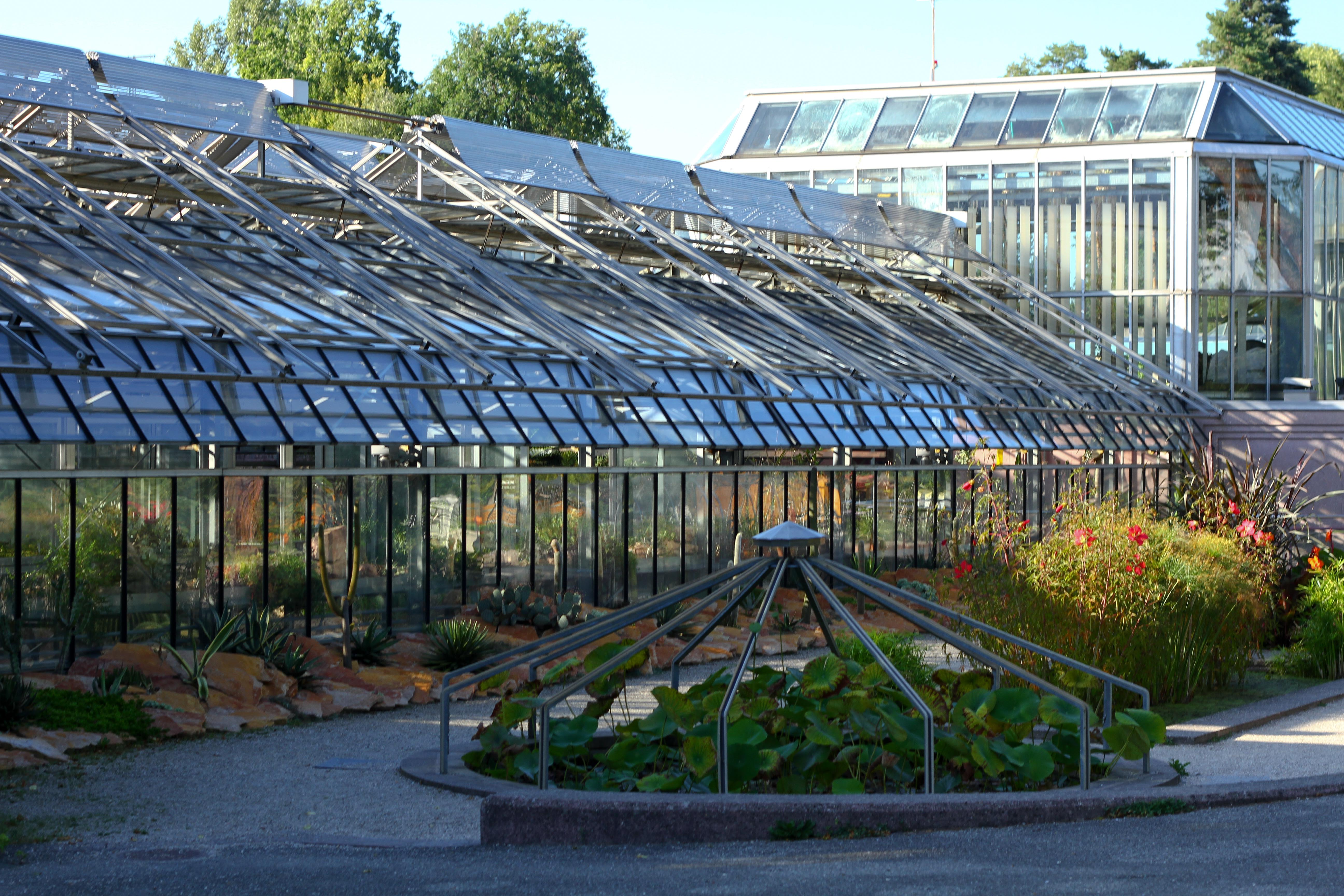 One of the Green Houses in the Jardin Botanique